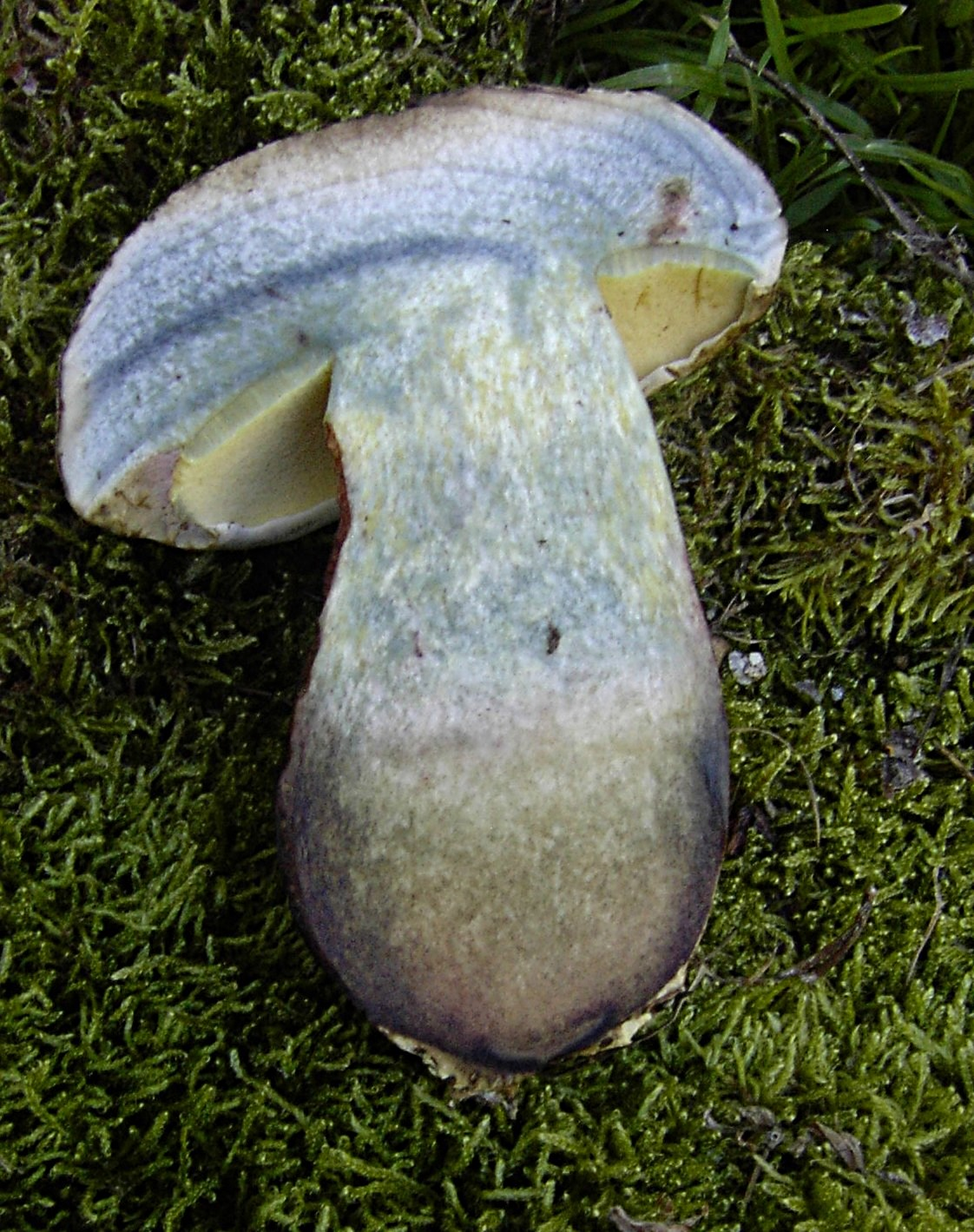 Boletus radicans: Under oaks at the outskirt of the forest; taste bitter; height: about 280m above sea level